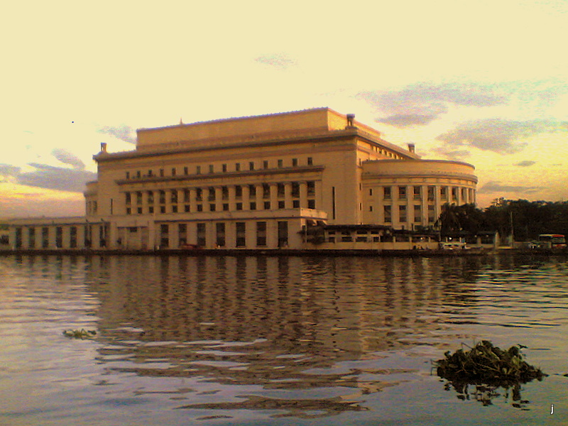 Riverside View Of Philippine Post Office